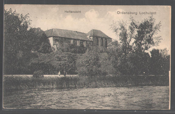 Pawlowo Castle